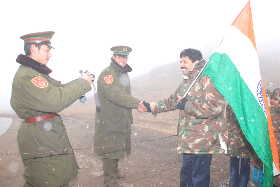 Part of motivation magic journey swaraj yatra 2007 with Chinese military officer.